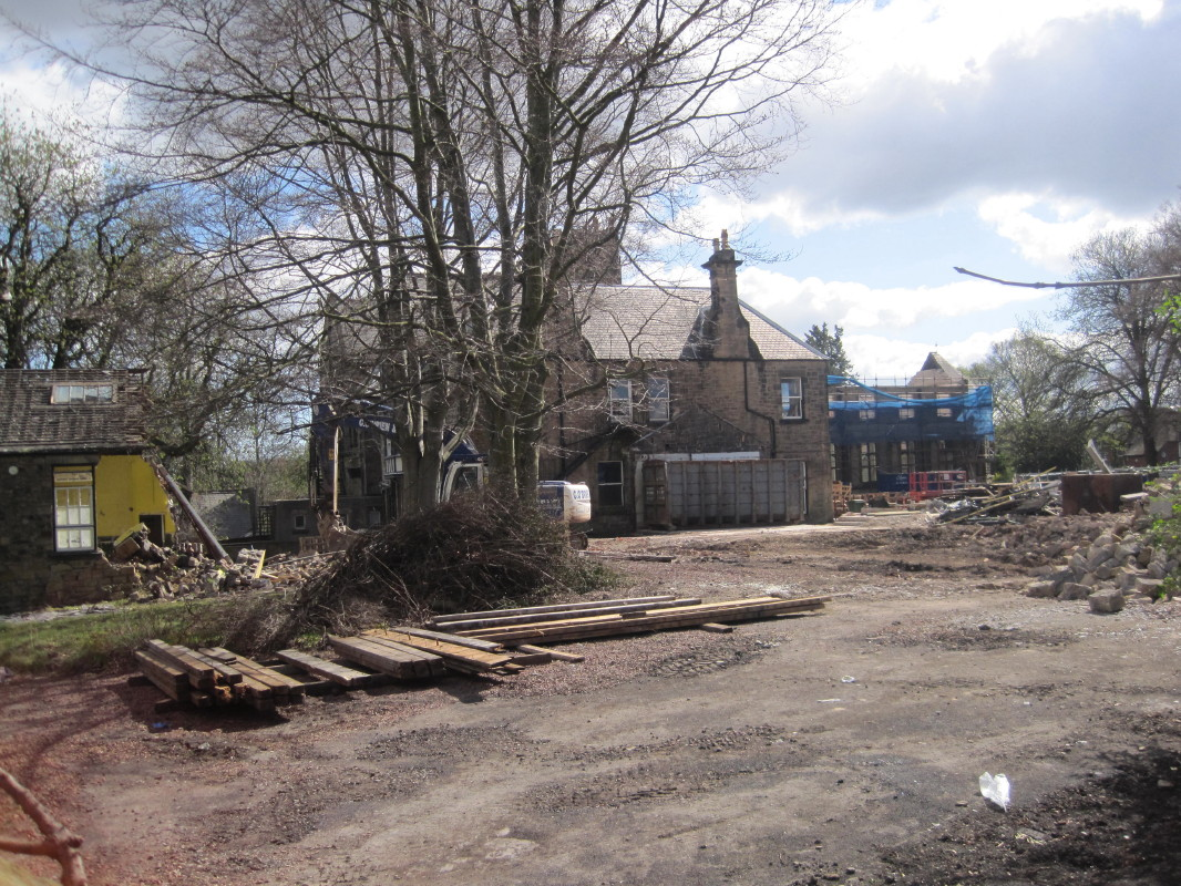 Demolition work at Former School